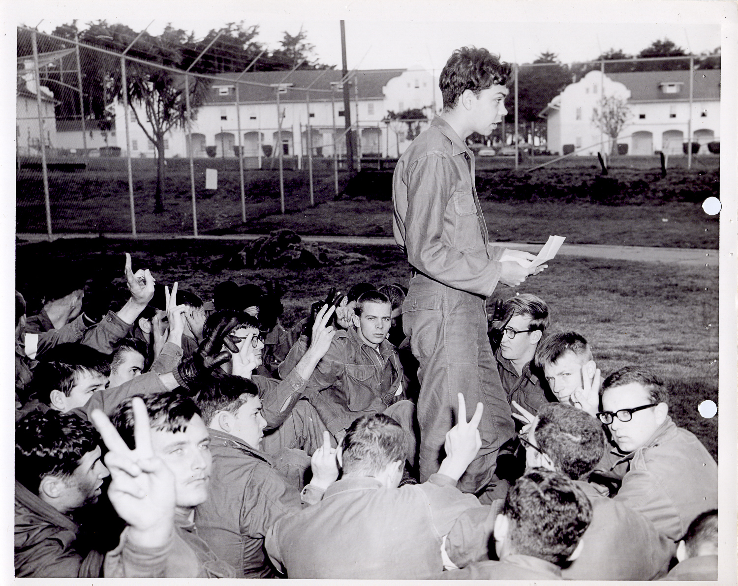 The Presidio 27 "mutiny" when 27 soldiers sat down to protest the murder of one of their own, mistreatment and the Vietnam War. Private Walter Pawlowski is reading their demands.